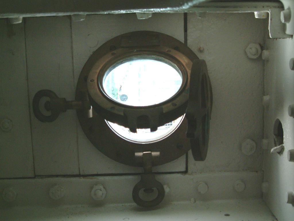 Porthole of HMS Gannet in Chatham Dockyard